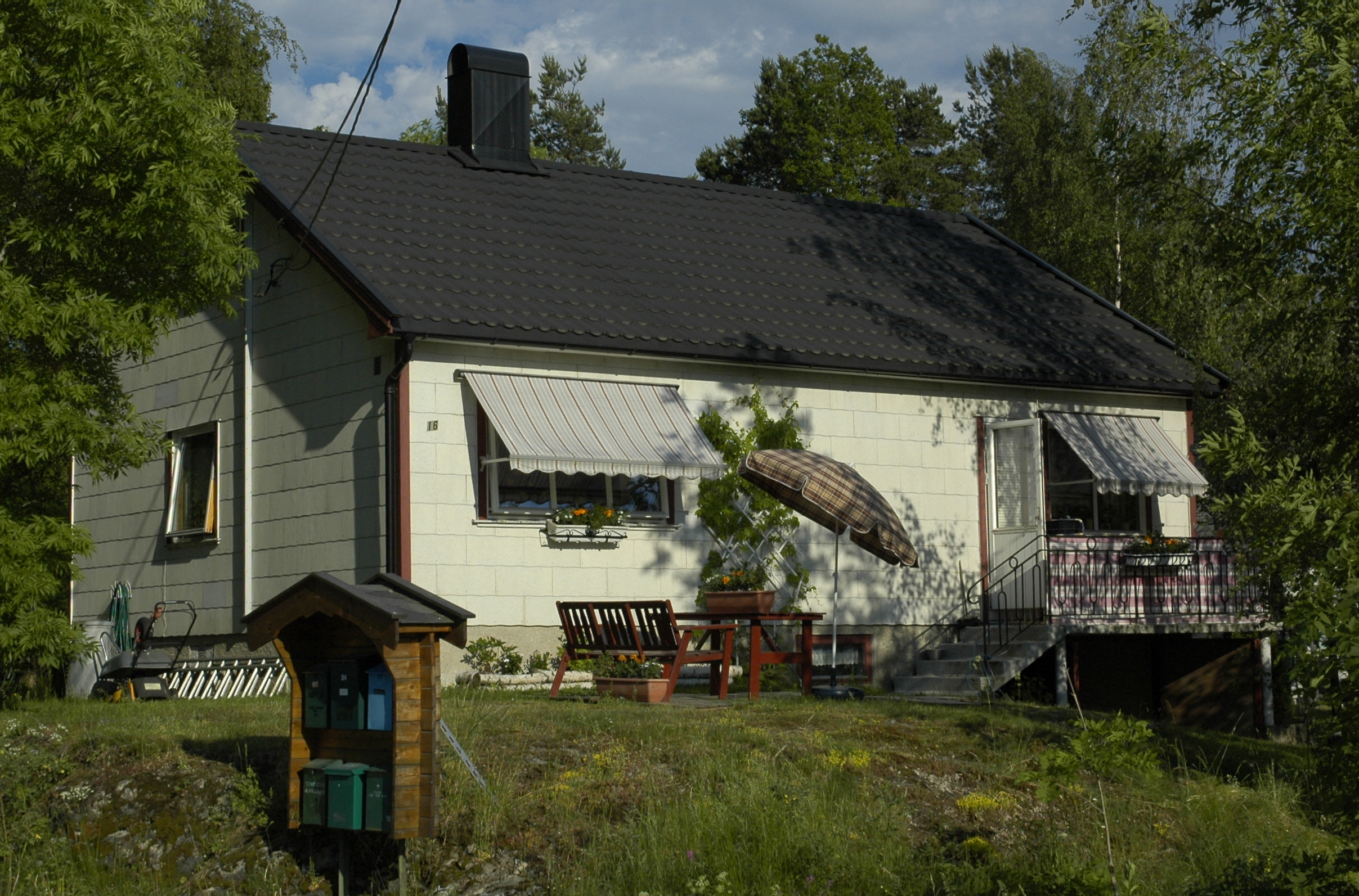 Norwegian house with Eternit paneling. From Røyken.